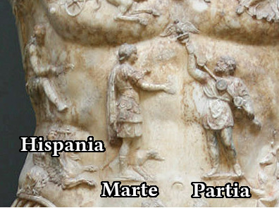 Augustus of Prima Porta (20-17 v. Chr.), in Villa Livia in Prima Porta, discovered in 1863. Section of the shield